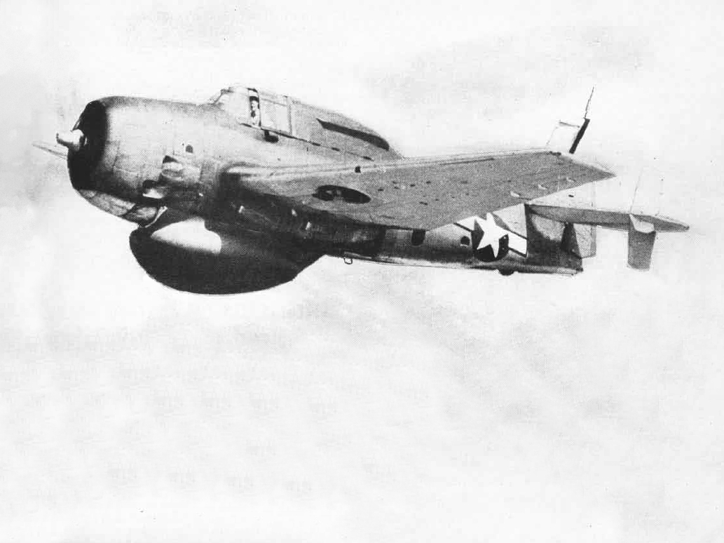 A U.S. Navy Grumman TBM-3W Avenger in flight, circa in 1946.